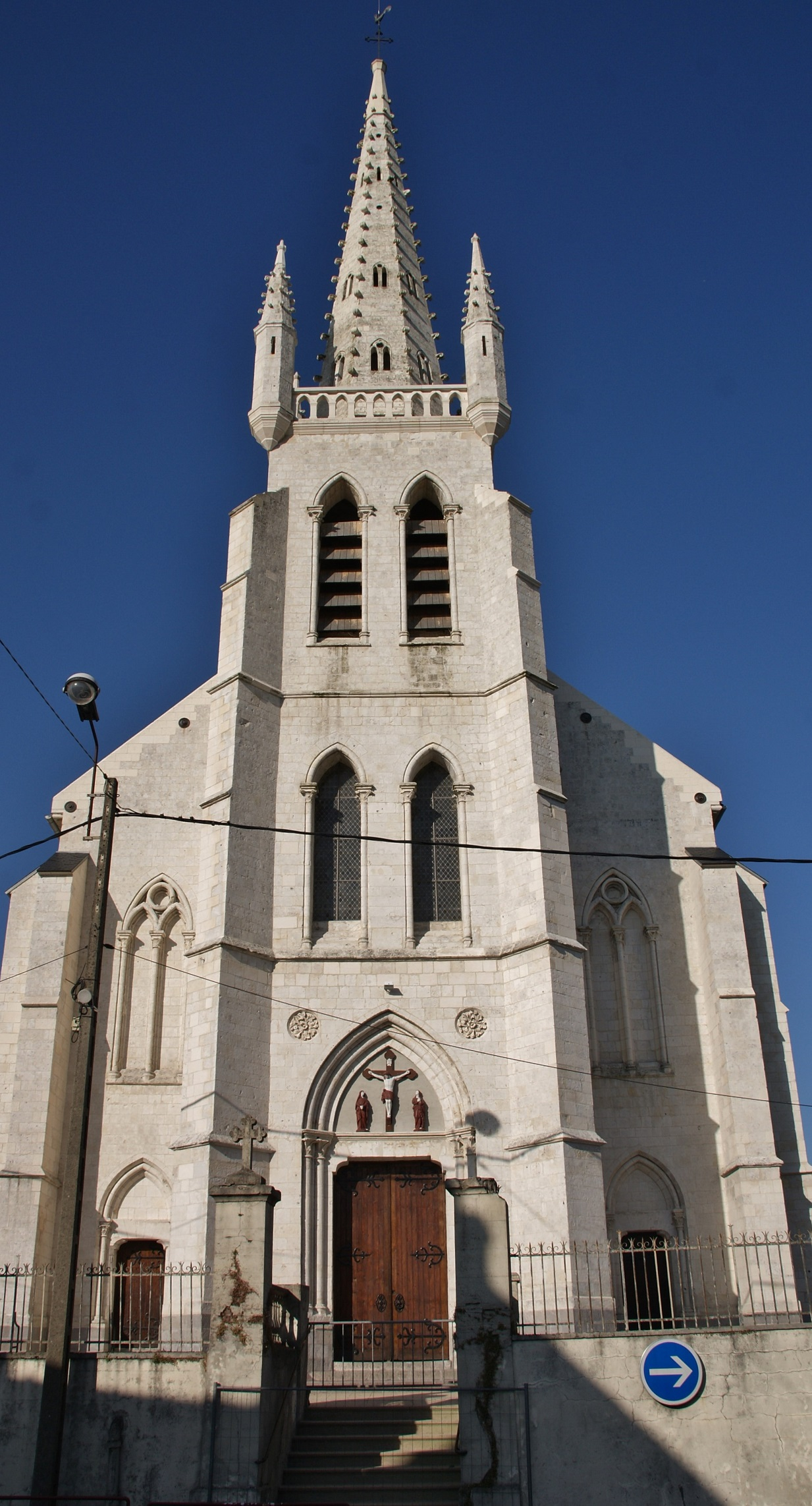 église St Sulpice